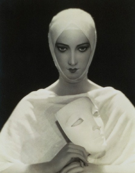 Publicité pour Elizabeth Arden by Adolf de Meyer.